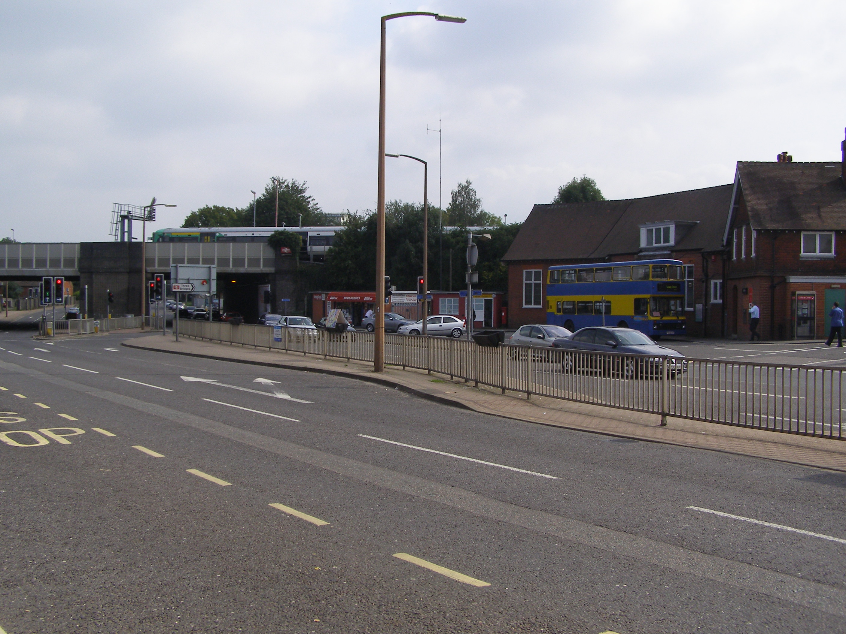 Three Bridges Railway Station, Three Bridges, Crawley, West Sussex, England